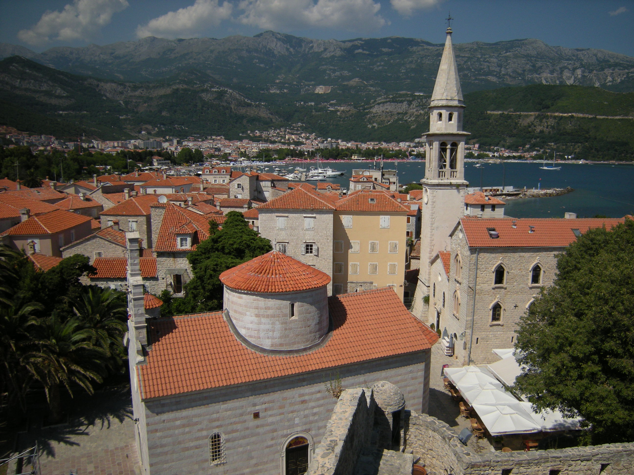 Budva, Montenegro